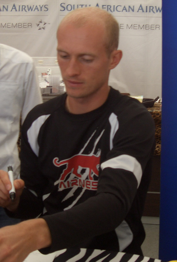 Nikolay Davydenko at the Hamburg Masters 2008